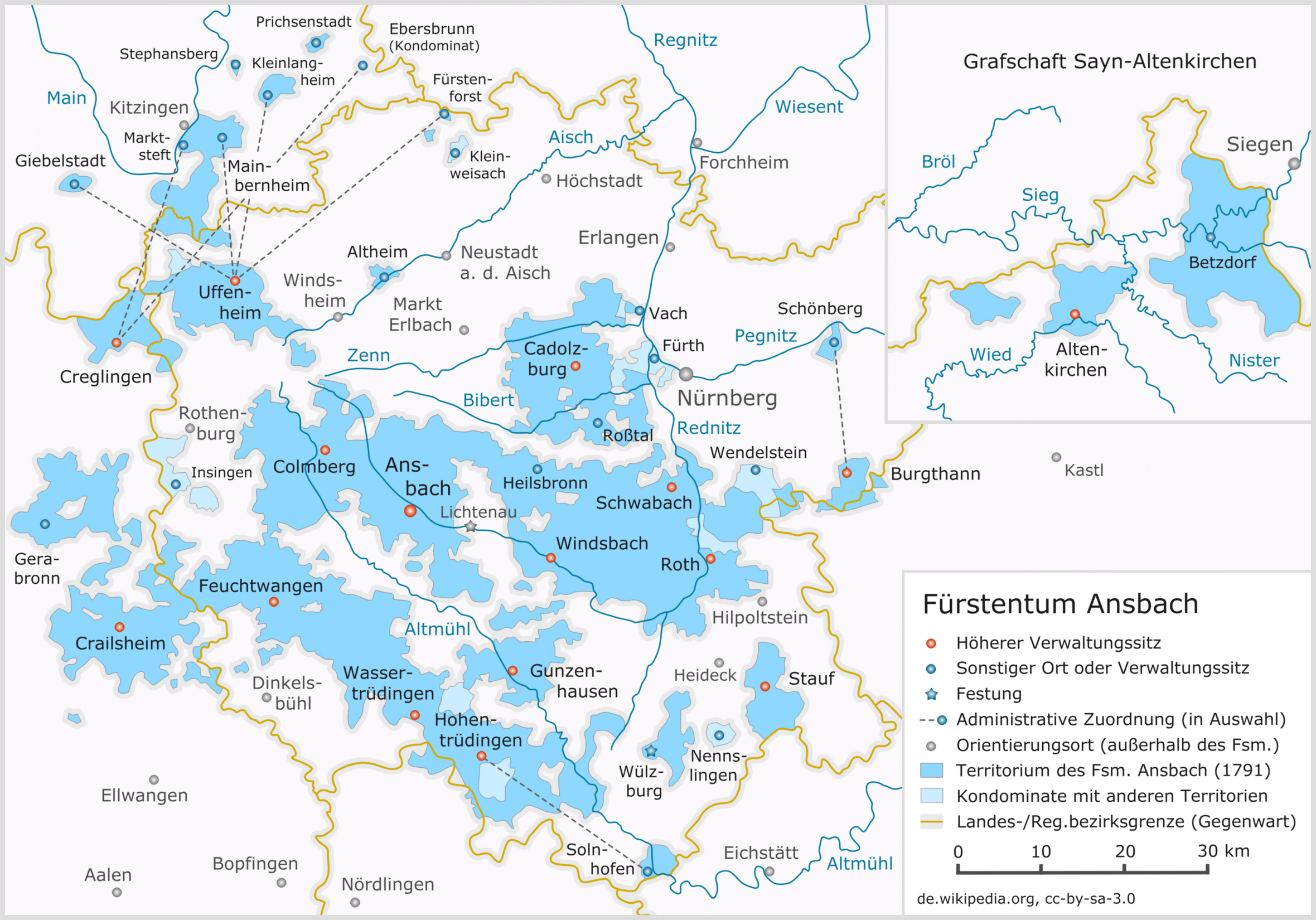 Principality of Ansbach